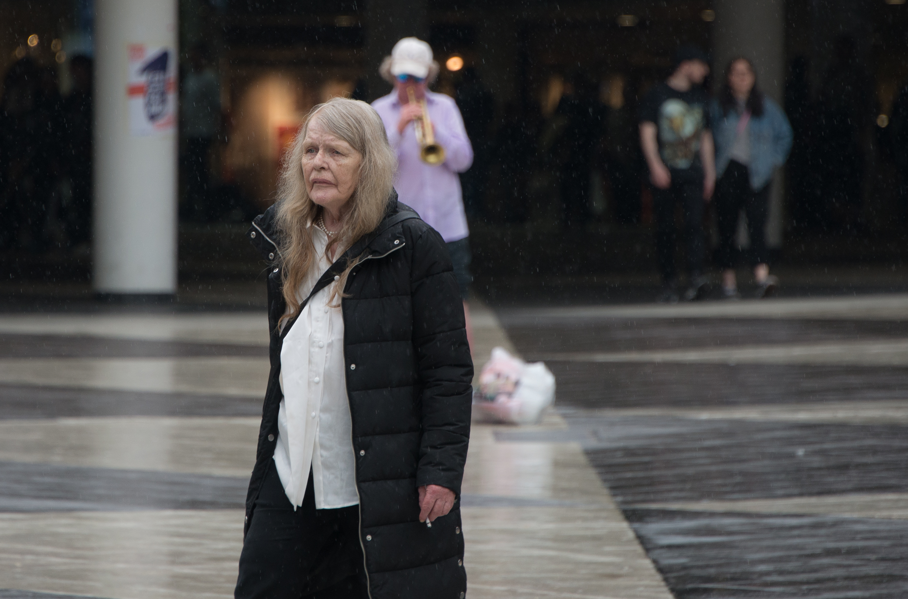 Kristina Lugn a rainy day at Sergels torg after a visit to the City Theater Kulturhuset in Stockholm.